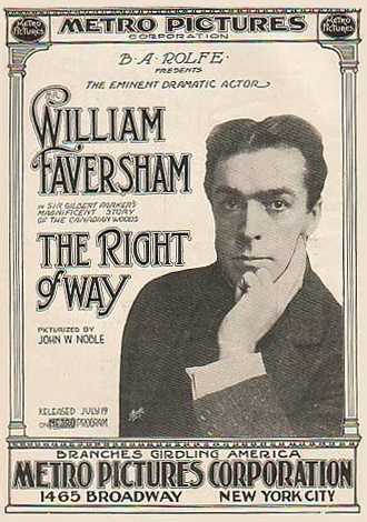 William Faversham in The Right of Way (1915) - poster (cropped : see source)